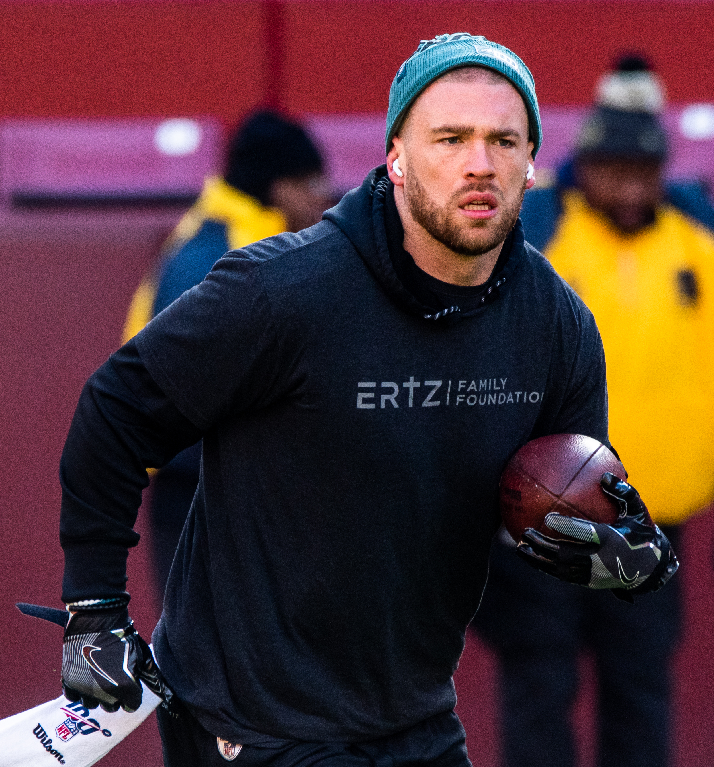 In 2019